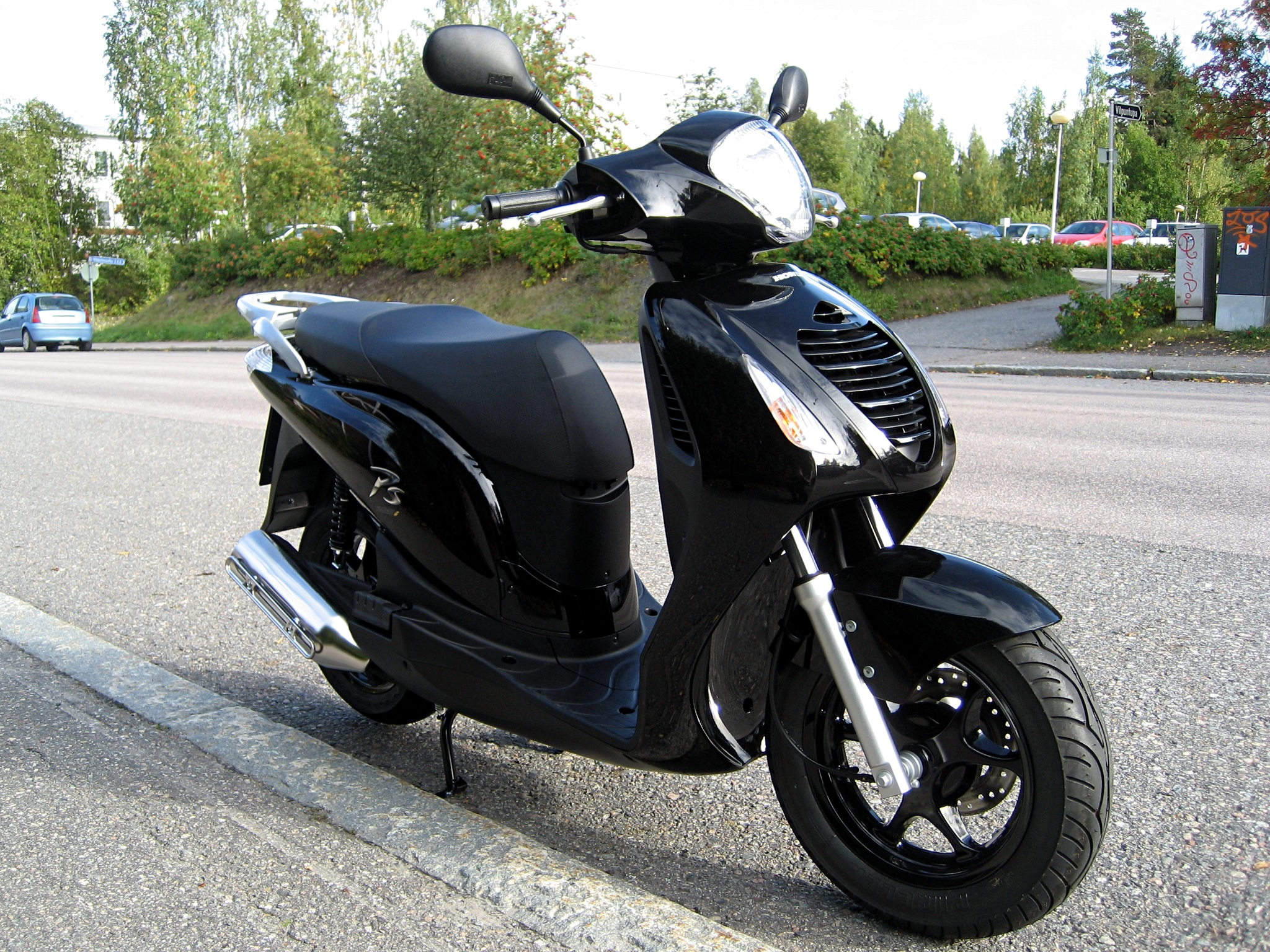 Honda PS125i motor scooter (2009), made in Italy.